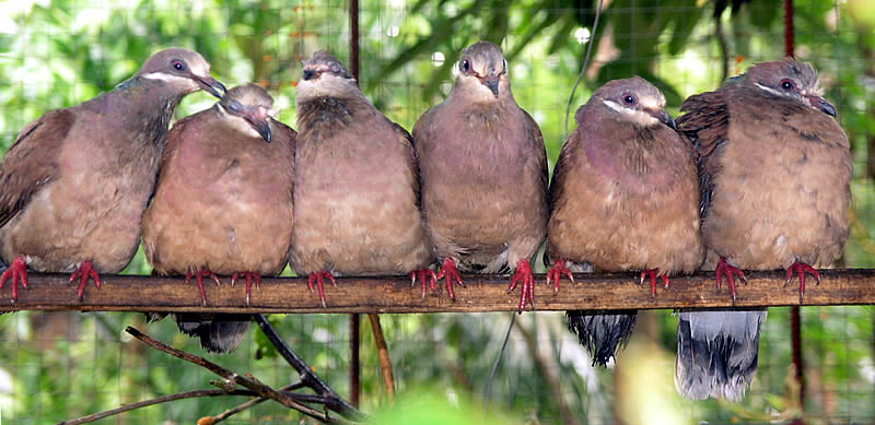 White-eared brown dove (Phapitreron leucotis), Philippines.